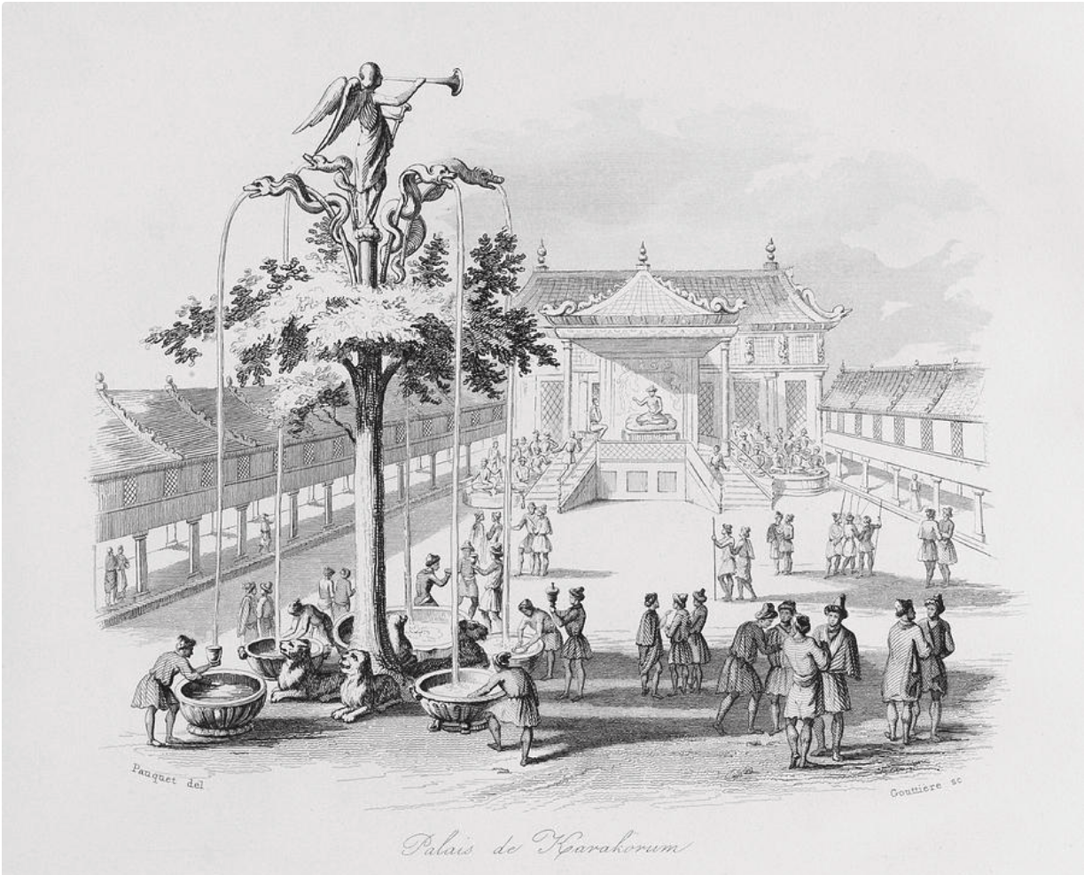 Karakorum silver tree